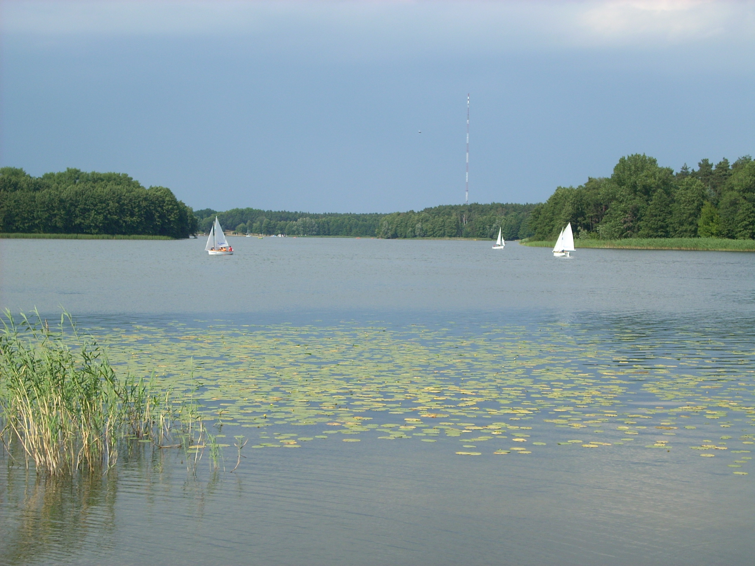 Slesin's Lake on holidays